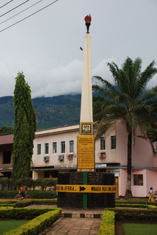 Independence torch at Morogoro town centre, Tanzania